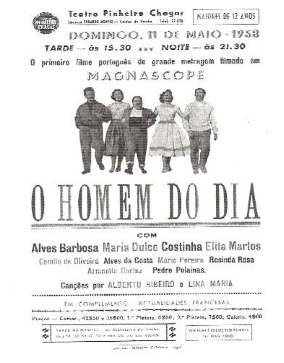 Alves Barbosa no filme Homem do Dia